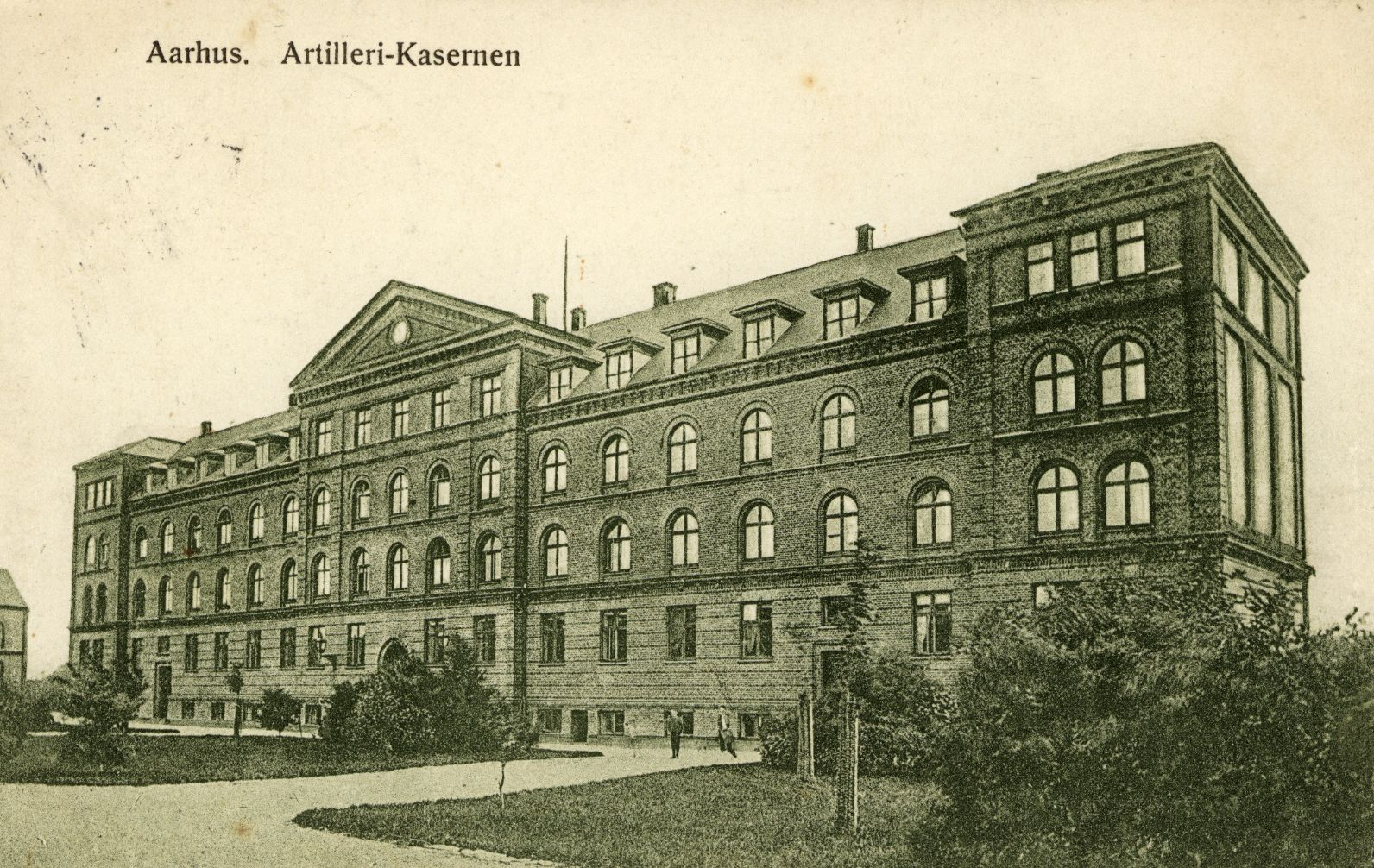 Barracks on Langelandsdade in Aarhus, ca. 1908